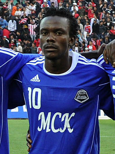 TP MAZEMBE